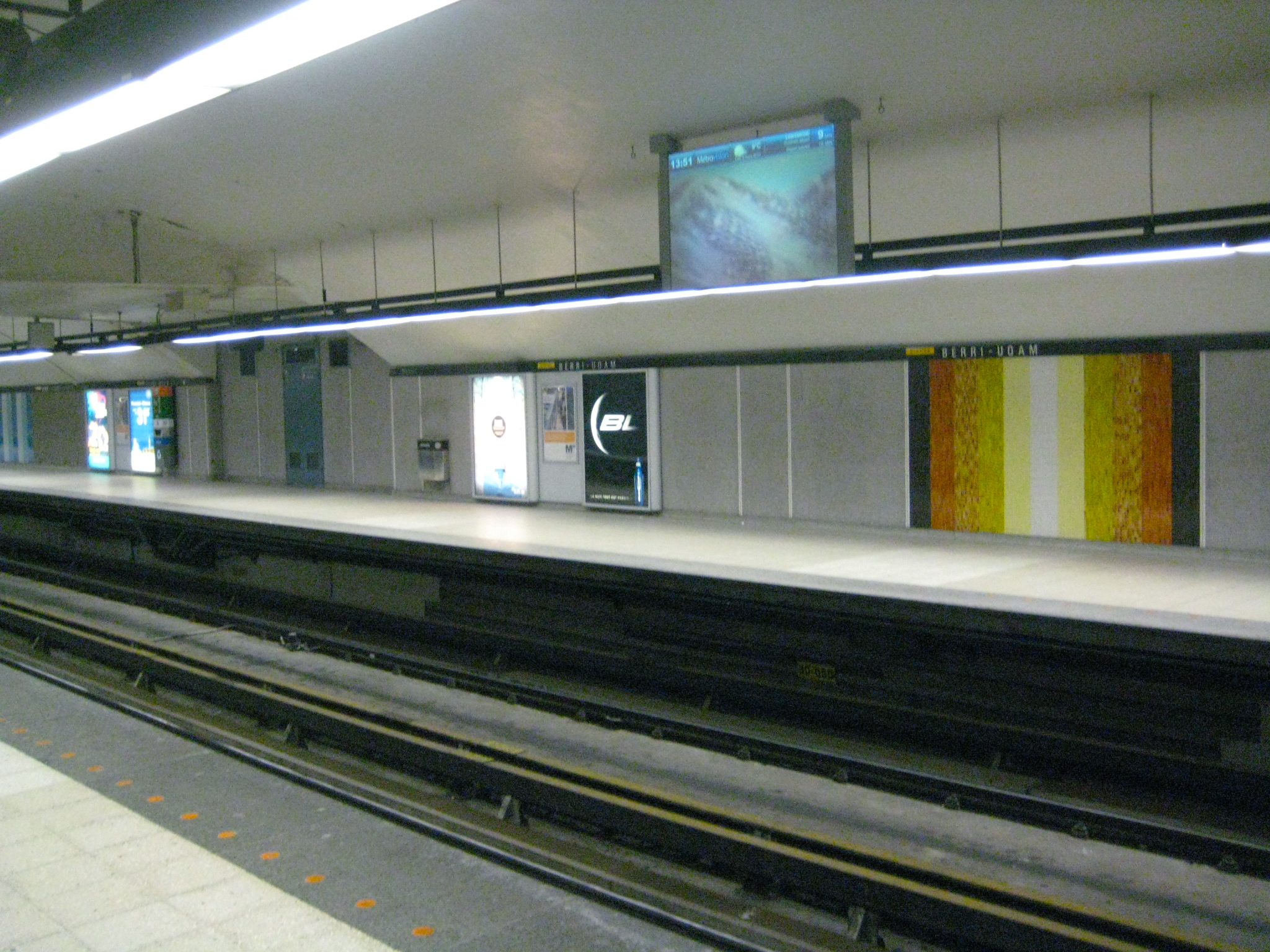 Berri-UQAM Metro station Yellow Line platform.jpg